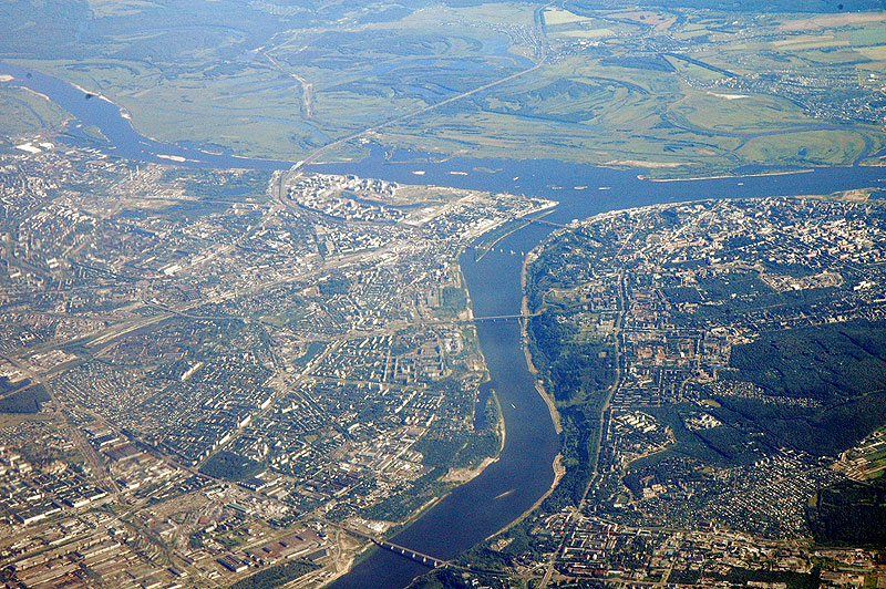 Nizhny Novgorod aerial view